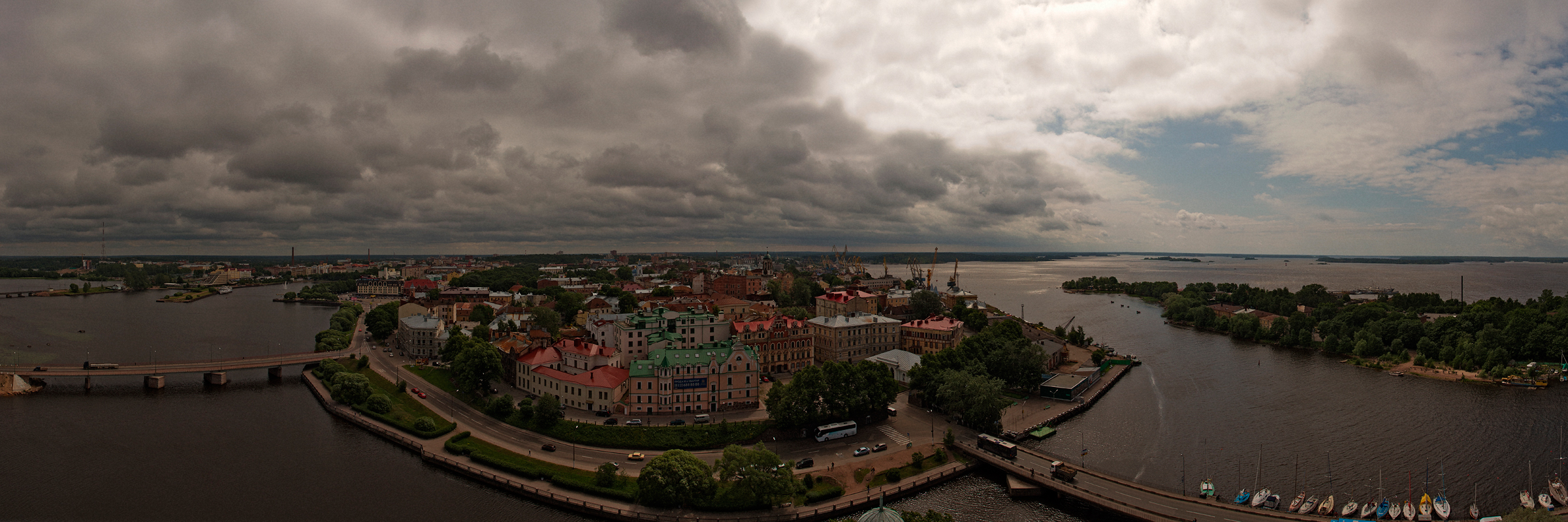 View of the central part of the city from the tower of St. Olaf Vyborg Castle